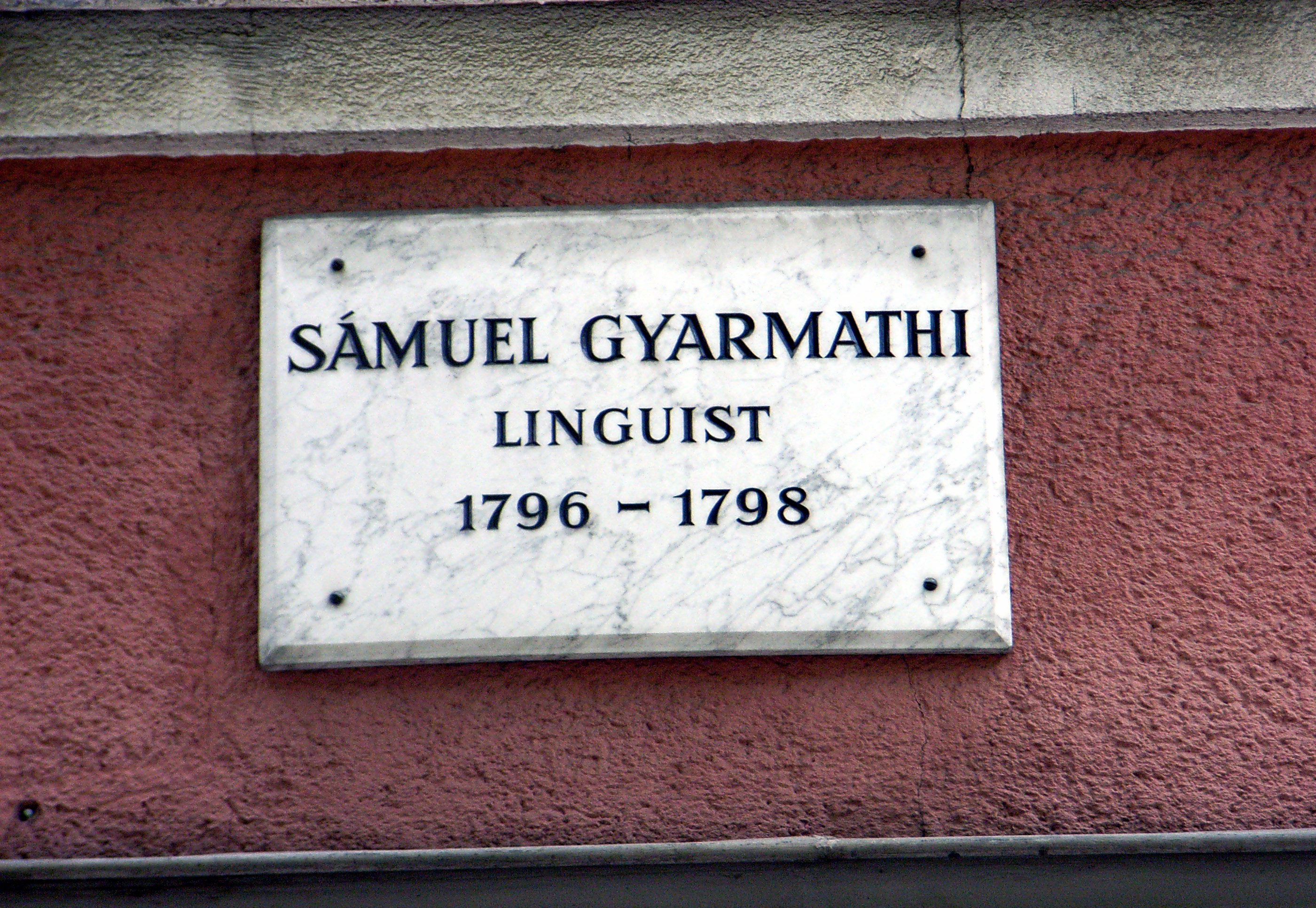 This image shows a informationsign in Göttigen.